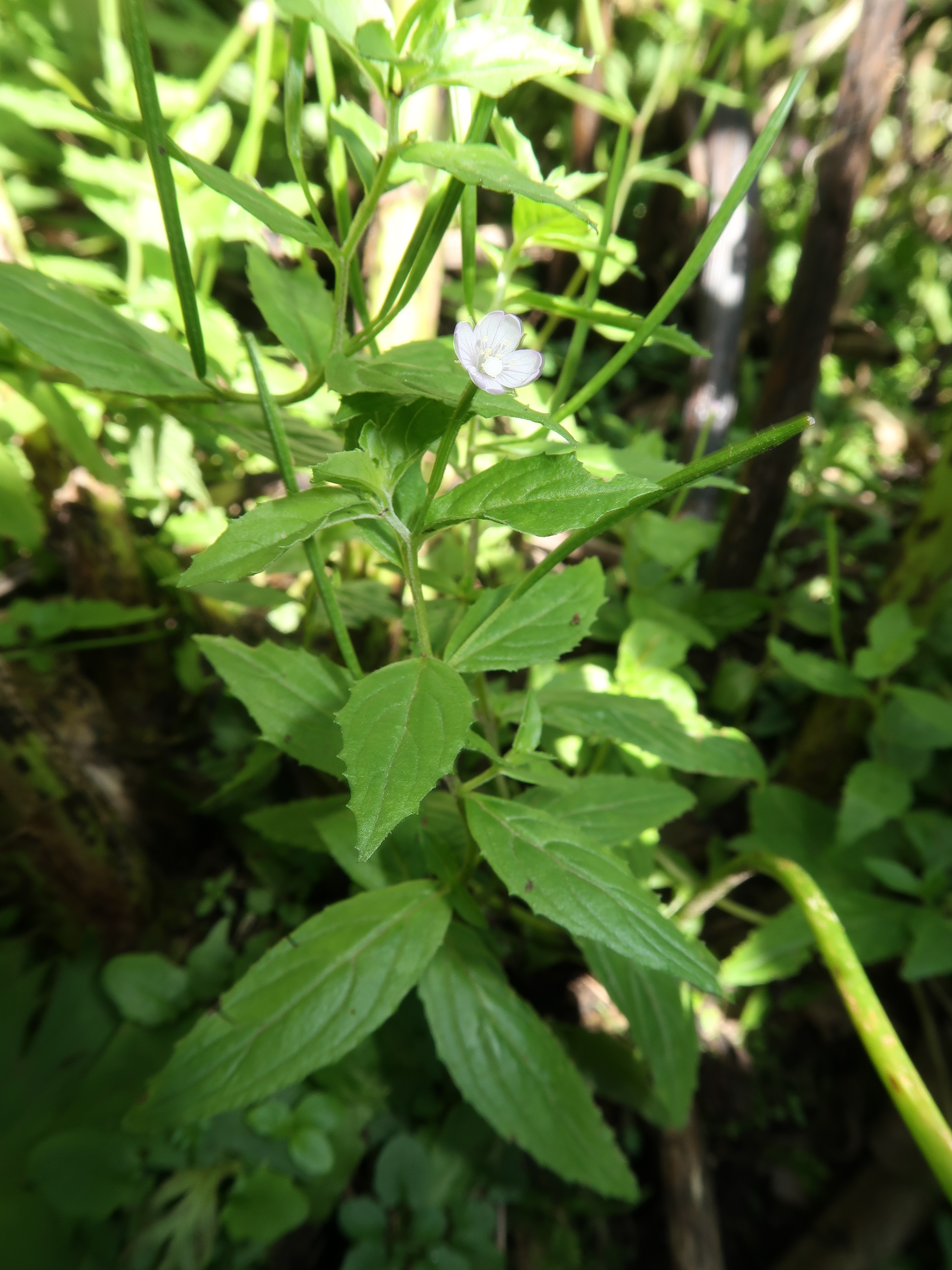 Epilobium amurense, Mount Gassann, Yamagata pref., Japan